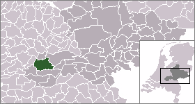 Locator map of Dutch municipalities in Gelderland (LocatieGeldermalsen.png)